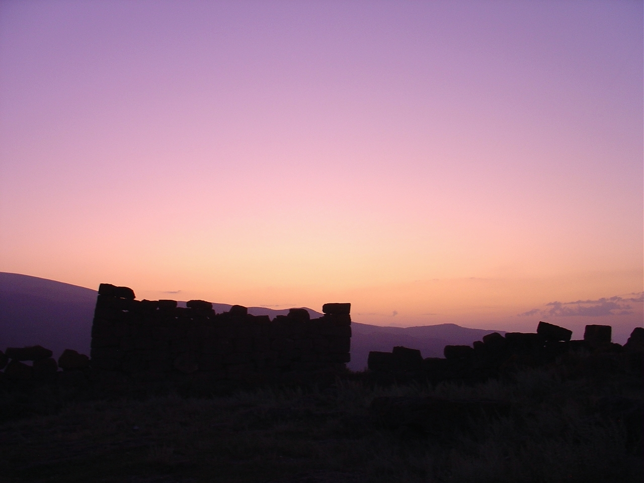 Sunset in Saro